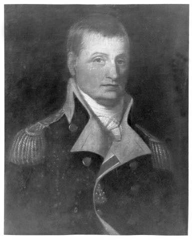 Thomas Overton (1753 – 1825) was an American military and political leader best known for having been the second to Andrew Jackson in his duel with Charles Dickinson in 1806. Thomas Overton was born in Louisa County, Virginia in 1753. His parents were James Overton and Mary Waller; his father was a great-grandson of Robert Overton, the Parliamentarian military commander during the English Civil War (and friend of Marvell and Milton). He served throughout the Revolutionary War in the Continental Army, and was an original member of the Society of the Cincinnati in Virginia. He was first appointed 2nd Lieutenant in the 9th Virginia Regiment in 1776 and was promoted to 1st Lieutenant in 1778. He was transferred to the 1st Virginia Regiment on March 14, 1778 and was made a Lieutenant, adjutant of the 4th Continental Dragoons on July 1, 1779. He was made a Captain on April 24, 1781. He married Sarah Woodson in 1787 and Penelope Holmes (a sister of Gabriel Holmes) in 1795. His daughter Jane (by his first wife) was the mother of Thomas Overton Moore, Governor of Louisiana from 1860 to 1864. His son (by his first wife) Walter Hampden Overton was elected to the United States House of Representatives in 1828. He spent a number of years in mid-life in North Carolina (where he represented Moore County in the State Legislature, which made him a Brigadier General), and in about 1804 moved to Tennessee where he died in 1825. His younger brother John (of Travellers Rest) was among Jackson's closest friends and was the founder of the city of Memphis. Source